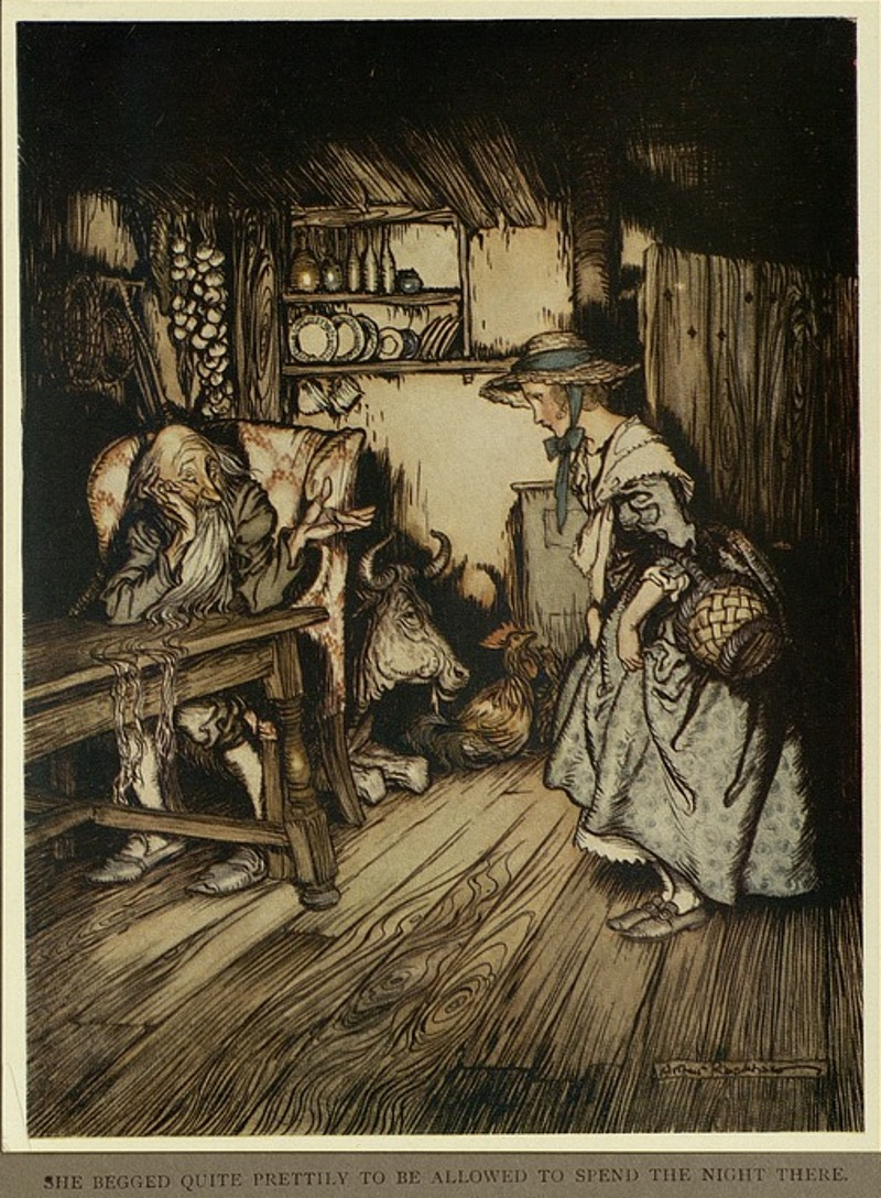 Little brother & little sister and other tales by the Brothers Grimm, illustrated by Arthur Rackham, 1917.